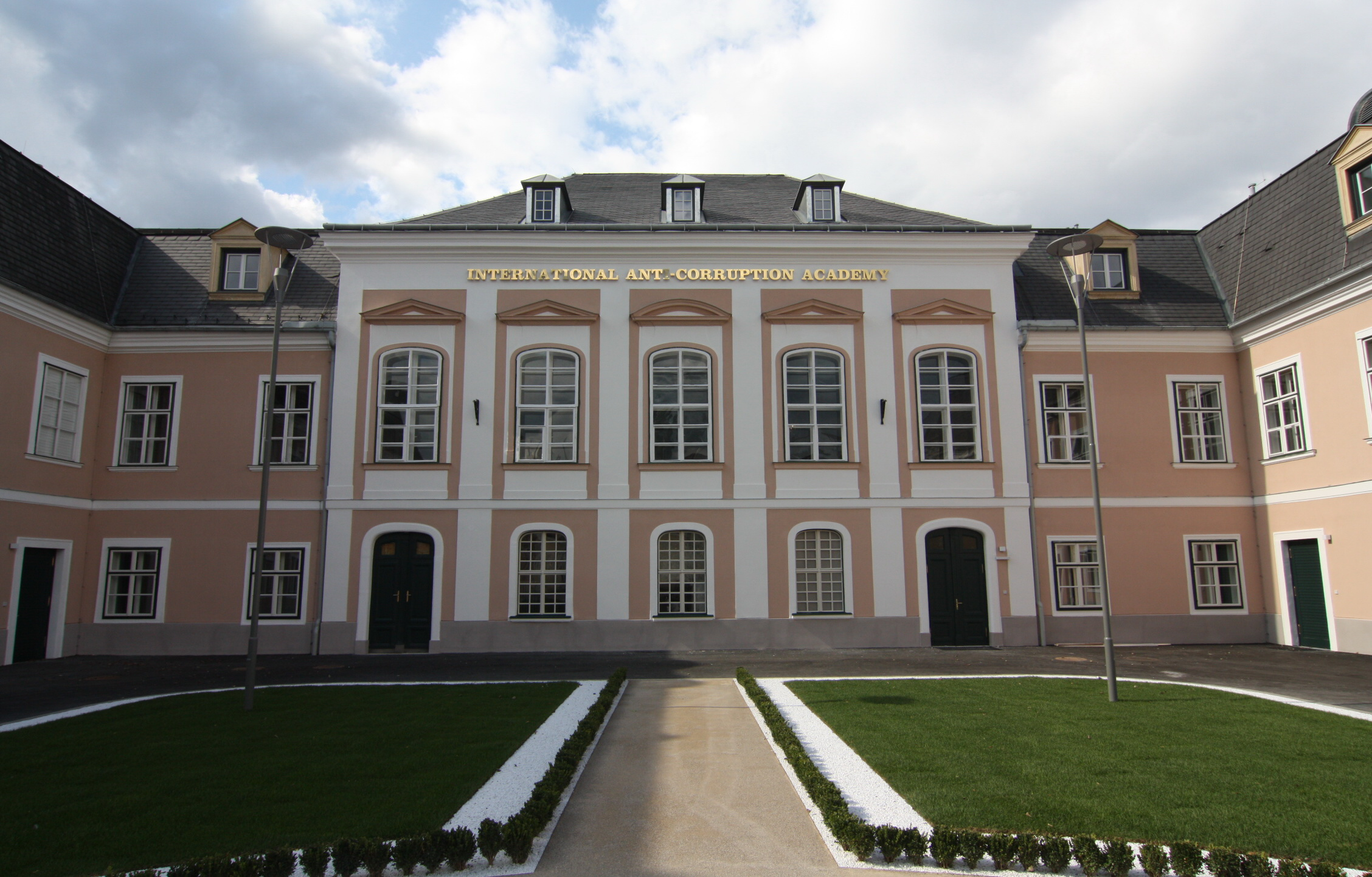 Palais Kaunitz (Laxenburg), International Anti-Corruption Academy Campus